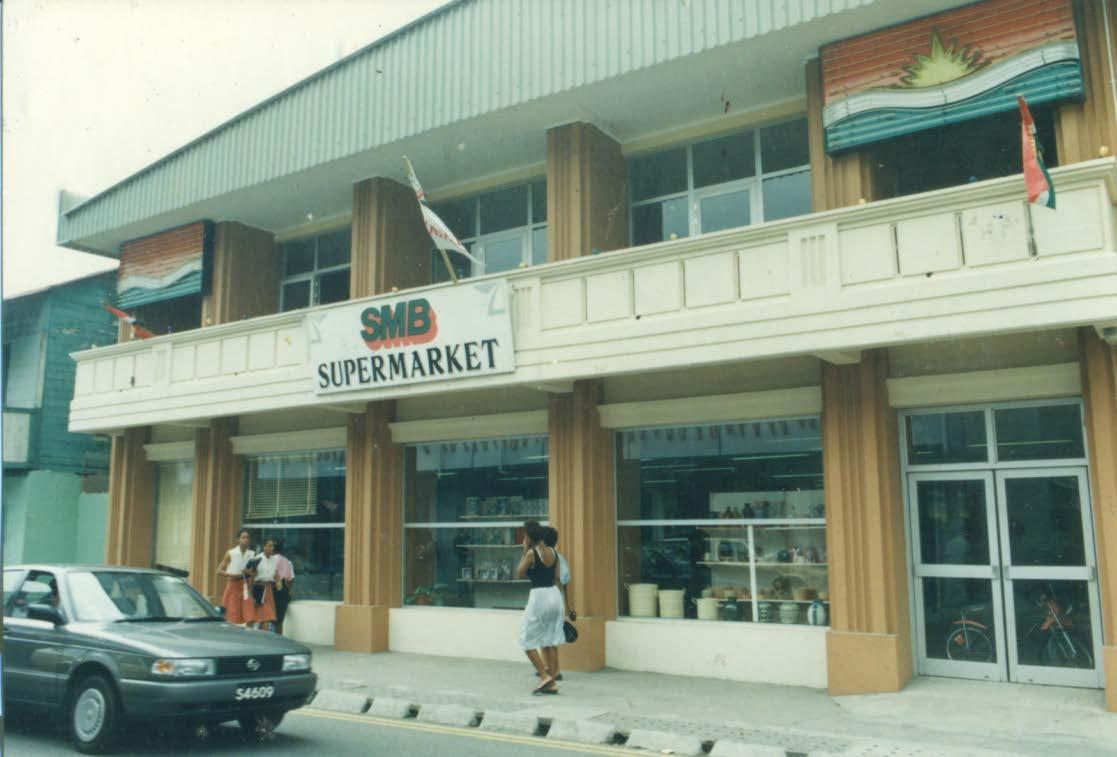 A supermarket from the SMB (Seychelles Marketing Board), that was built in 1984.